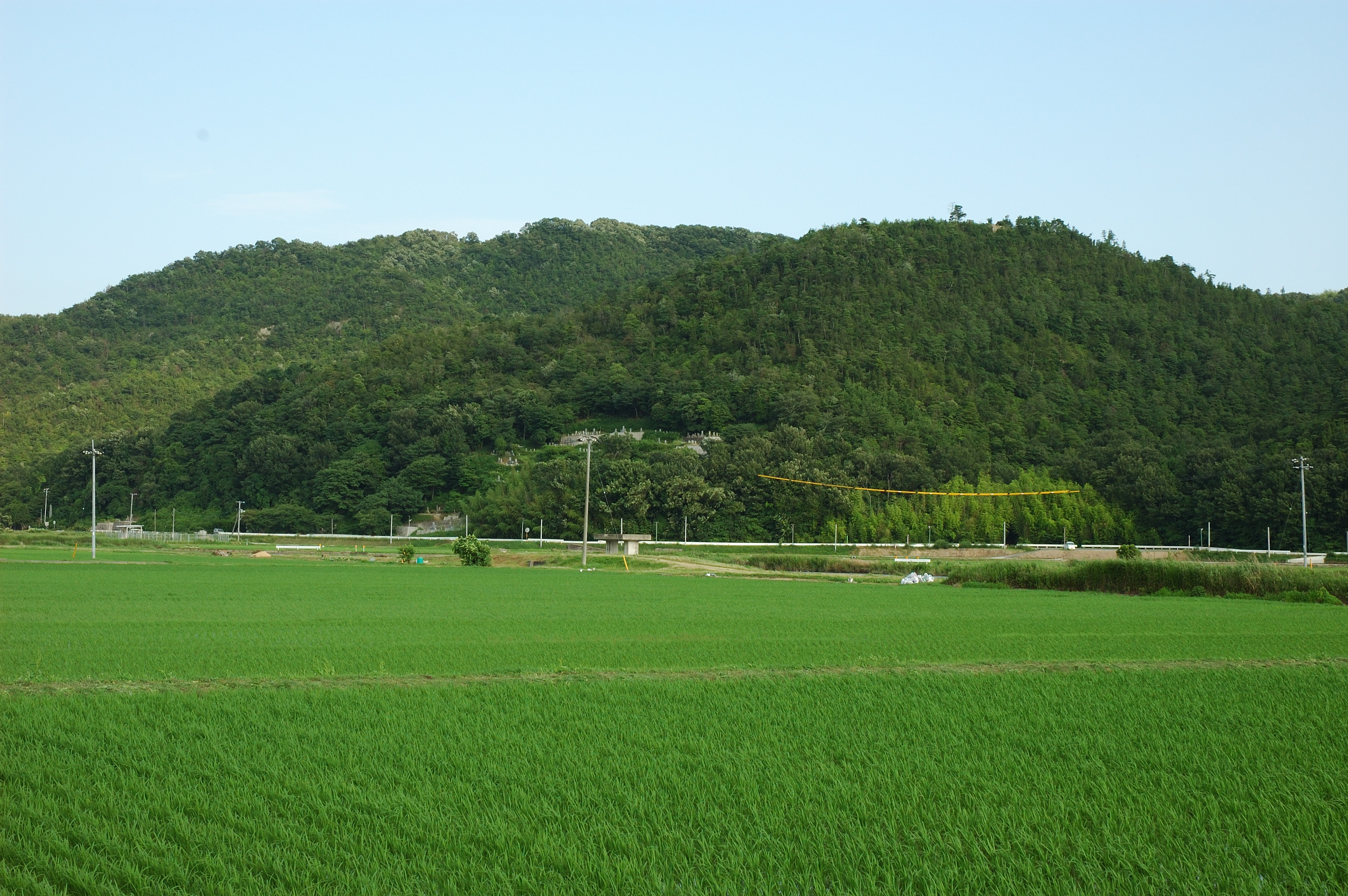 remains of Toishi castle in Okucho, Setouchi, Okayama, Japan